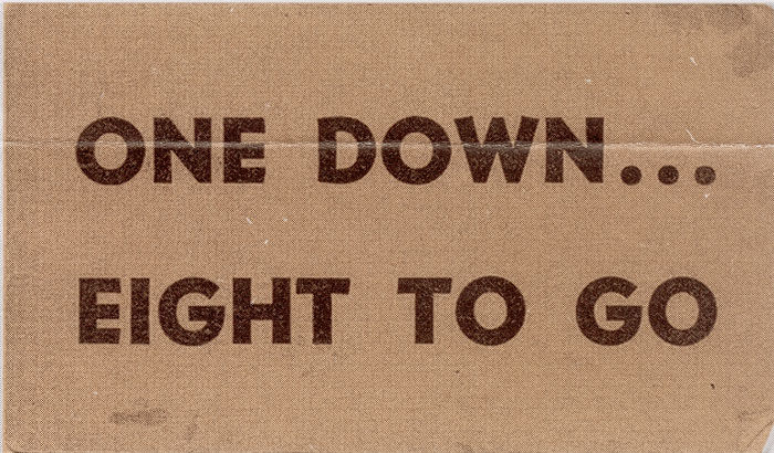 Card distributed by segregation activists at Little Rock Central High School after Minnijean Brown (one of the Little Rock Nine) had been expelled in 1958